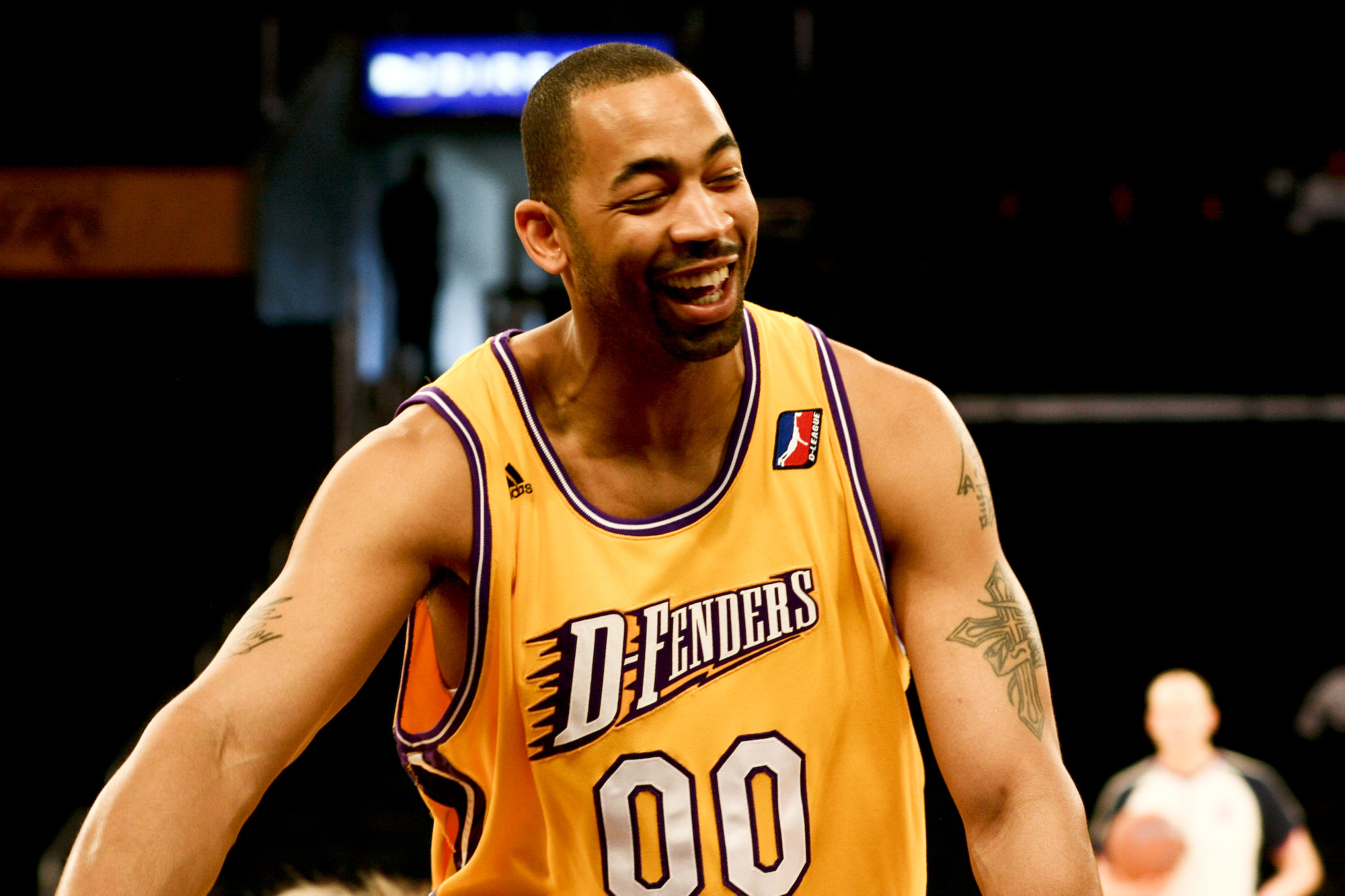 Jelani McCoy at the scorer's table to begin a Thunderbirds/D-Fenders game on March 23, 2008